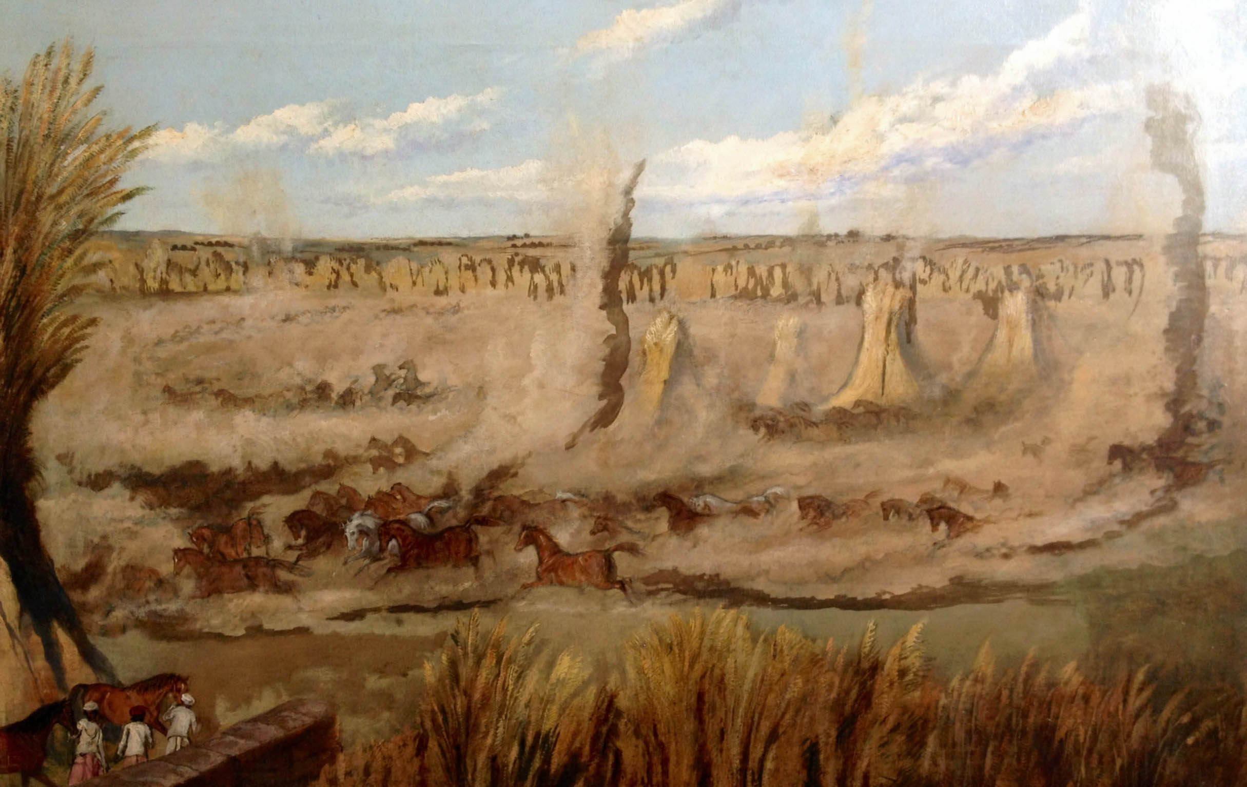 Photograph of a painting by George Landseer of a Foal Run in Buxar, India.